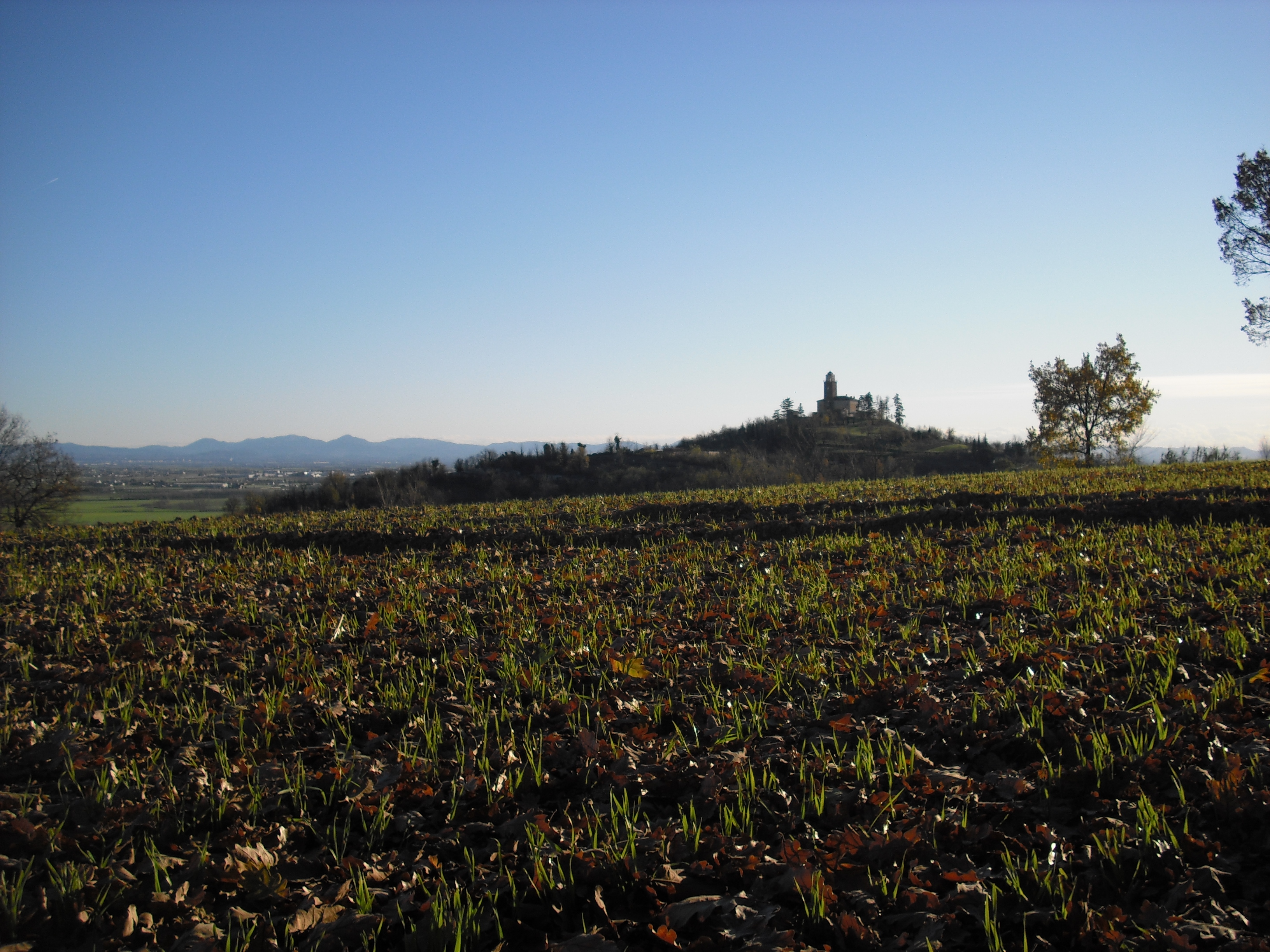 Montecastello, view of the castle.